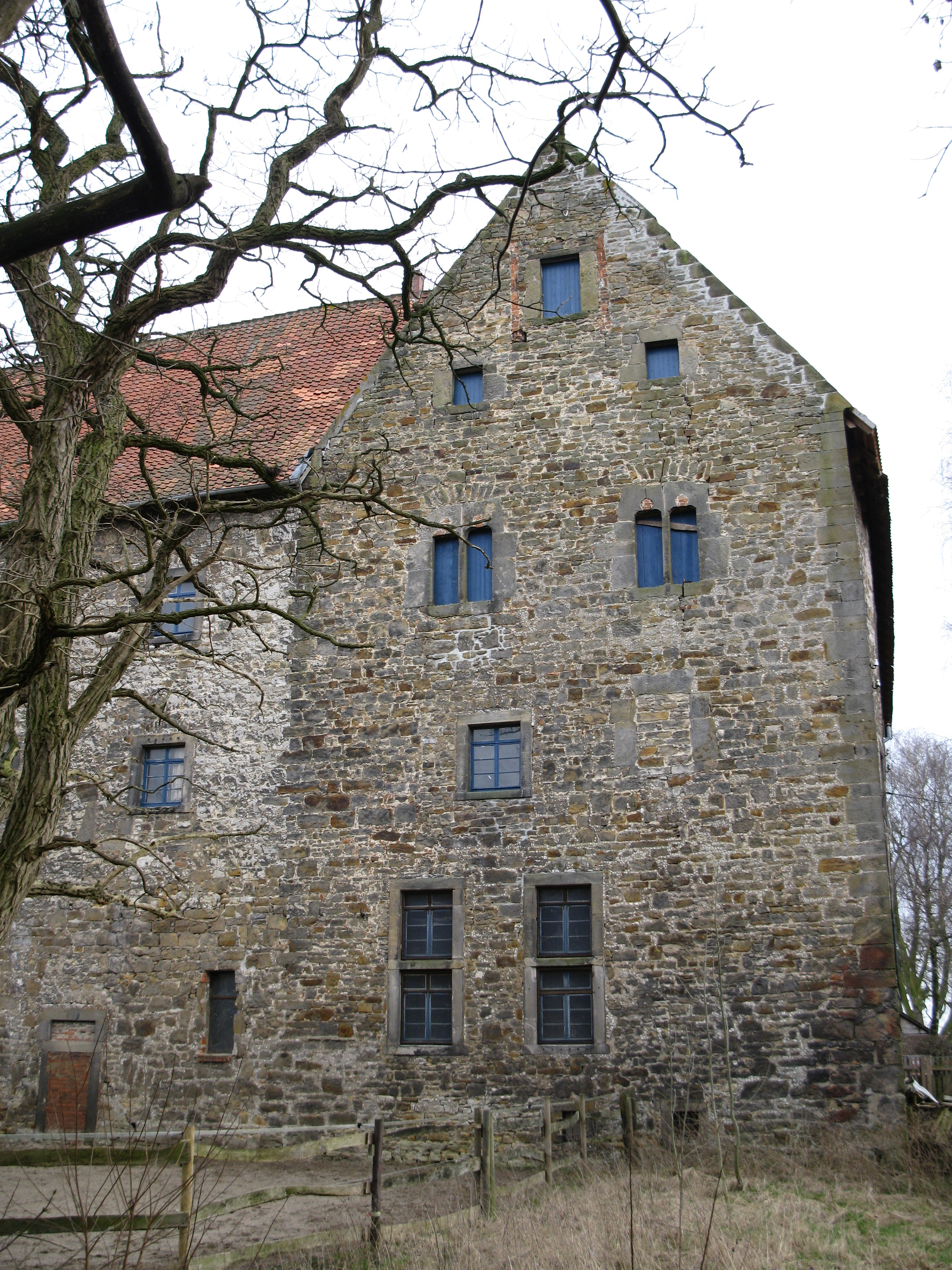 Steuerwald Castle (1310-13), Hildesheim